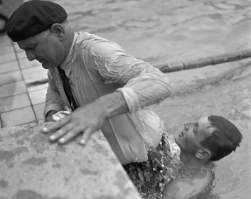 Jean Boiteux with father at the 1952 Olympics after the 400 m freestyle race